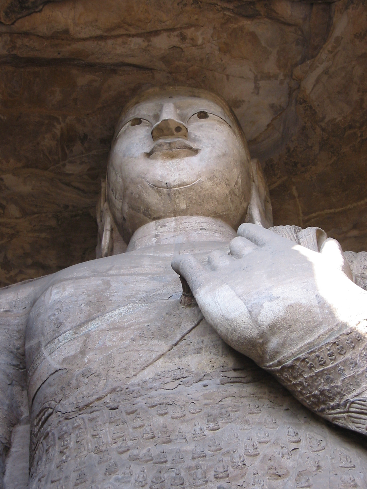 Yungang Grottoes This appears to be grotto 18, and can be matched using the images here